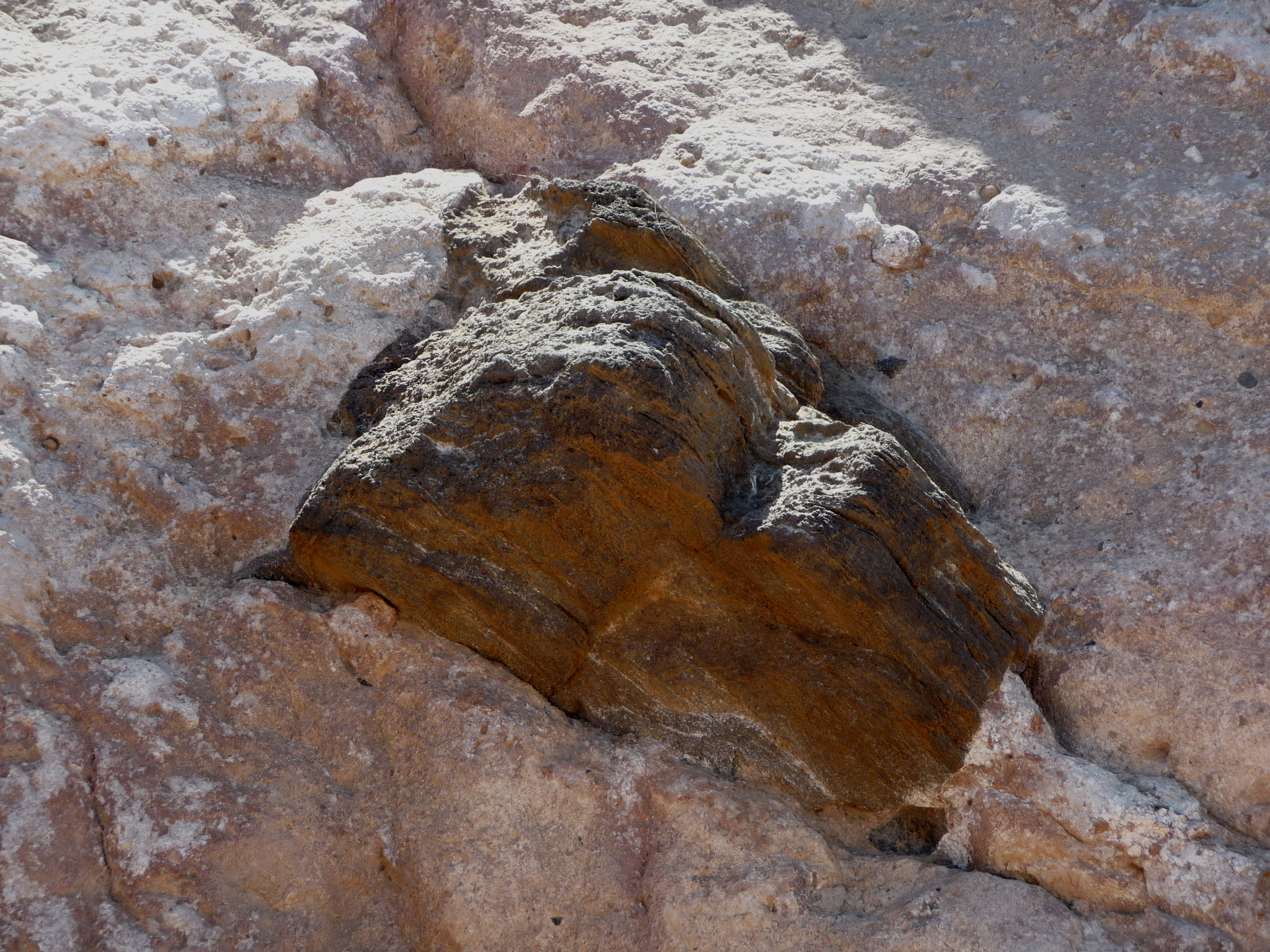 Red Island - dark rock in red rock. One of the five volcanic Salton Buttes at the Salton Sea - in Imperial County, Southern California